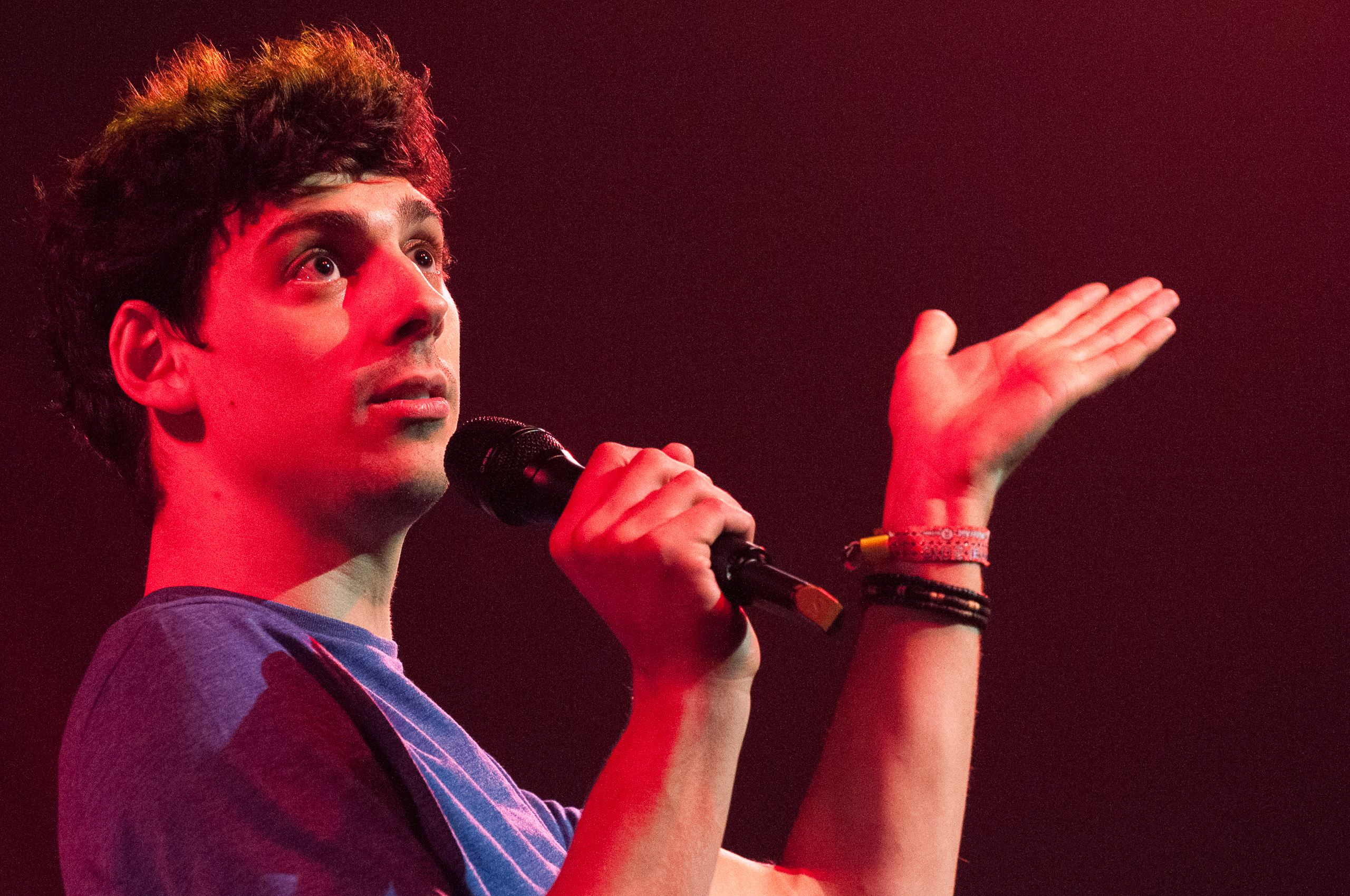 Matt Richardson performing at the Glastonbury Cabaret 2015